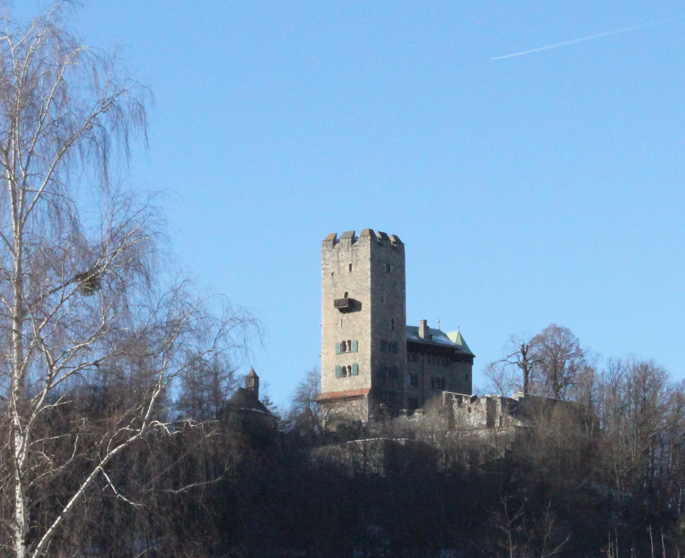 Geiersberg castle in Friesach